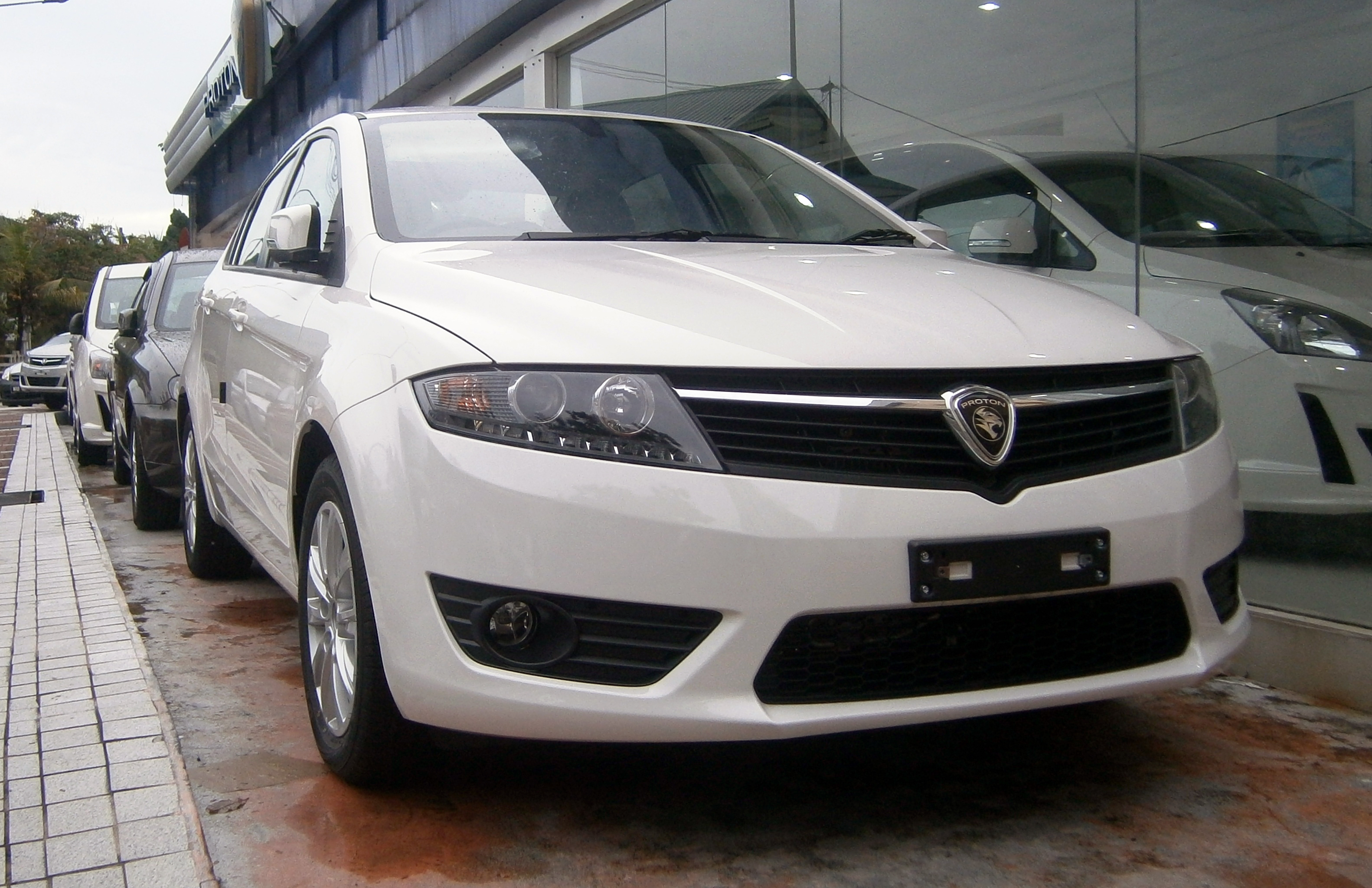 Front view of the Proton Prevé at the Proton TTDI showroom, Kuala Lumpur, Malaysia.